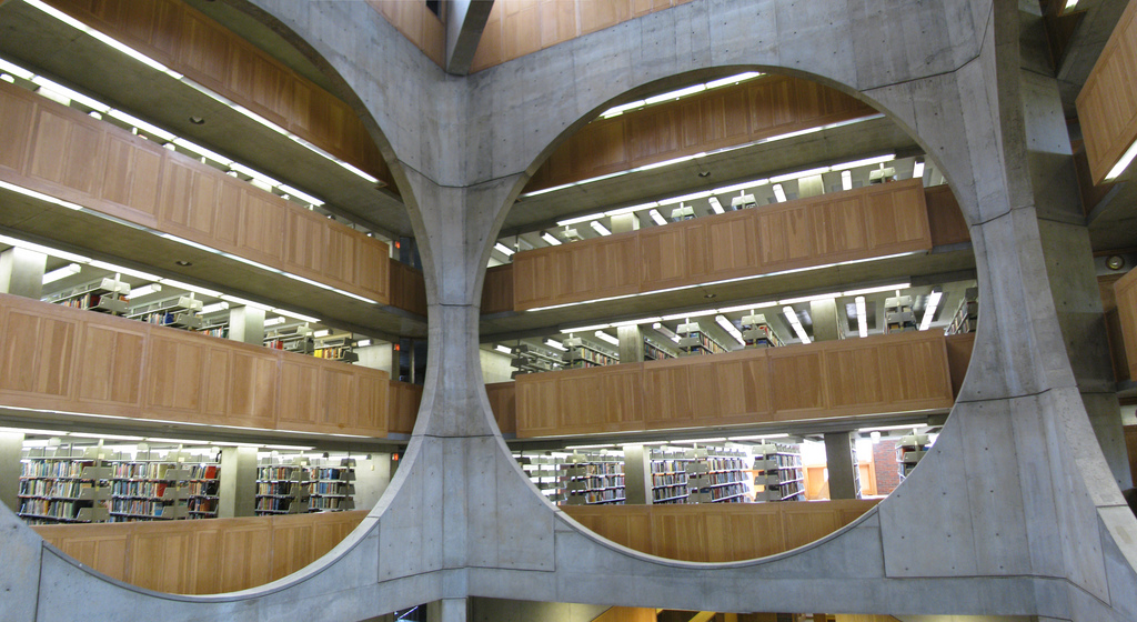 Phillips Exeter Library, New Hampshire - Louis I. Kahn (1972) - Atrium opening into book stacks